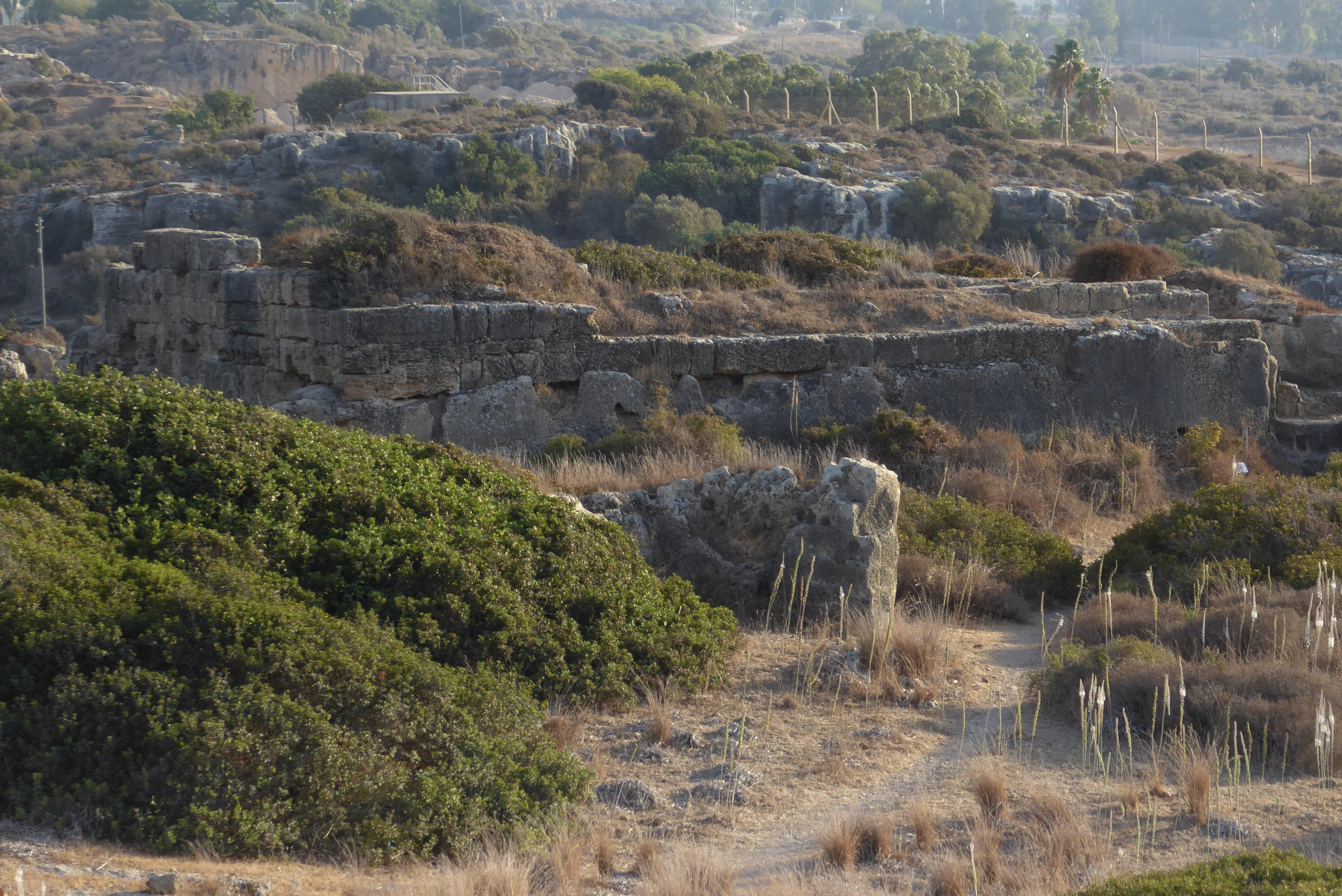 Le Destroit